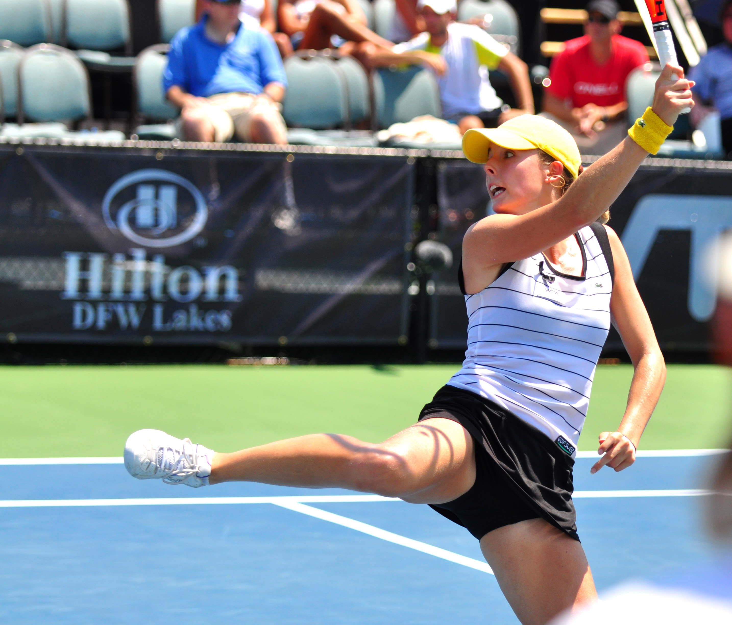 WTA - Sony Ericsson - Texas Tennis Open, Hilton DFW Lakes, Dallas, TX, August 27, 2011